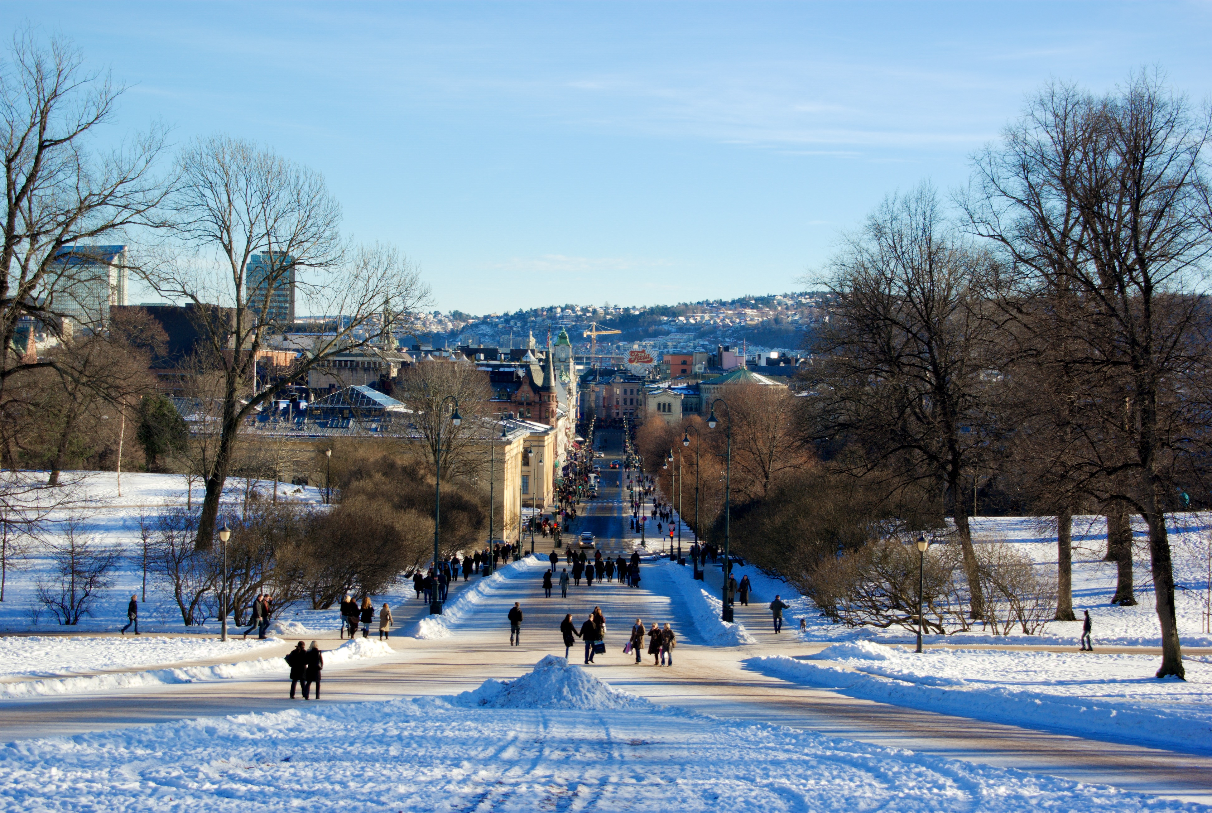 Oslo seen from the castle, Oslo, Norway.